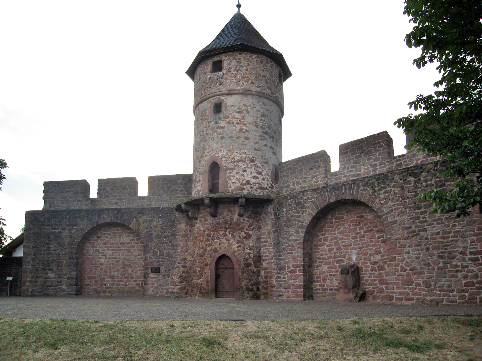 The defensive wall of Kirchhain